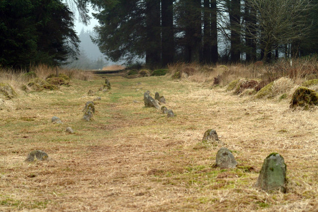 Fernworthy Stone Row. Pairs of stones for a row extending to the stone circle in Fernworthy forest